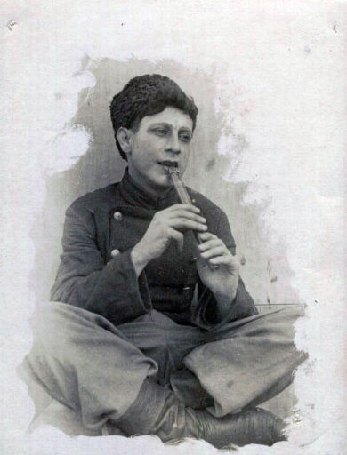 Azerbaijani actor Huseynaga Sadigov (1914-1983) in childhood playing on tutek